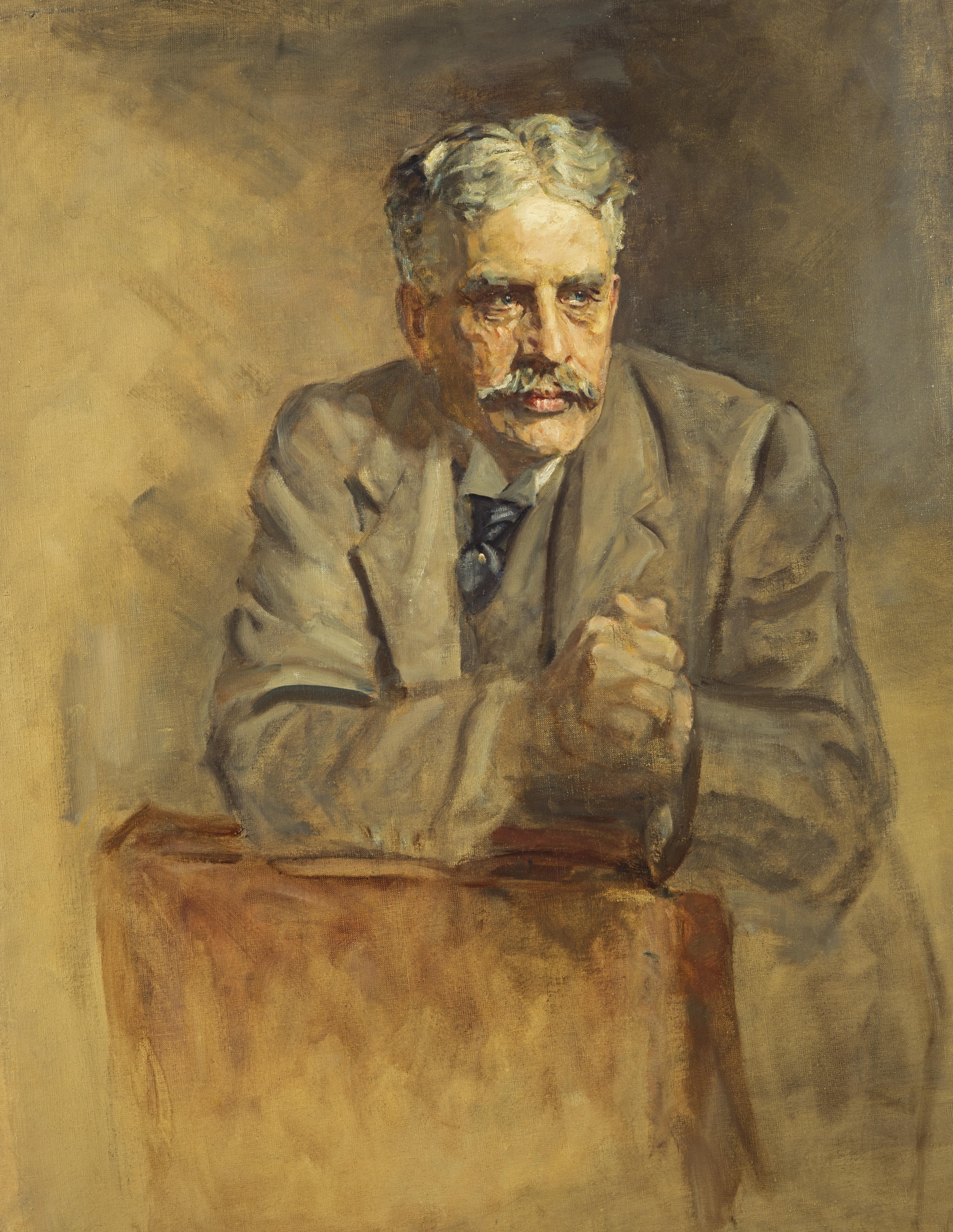 Sir Robert Laird Borden (1854–1937). Prime Minister of Canada. Study for portrait in Statesmen of the Great War.